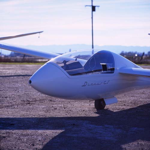 A parked Schempp-Hirth Discus CS